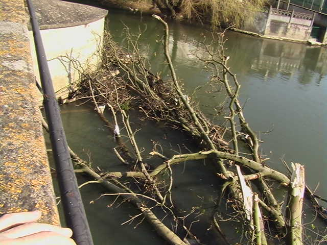 Tree uprooted by the Clain river, poitiers, march 2007